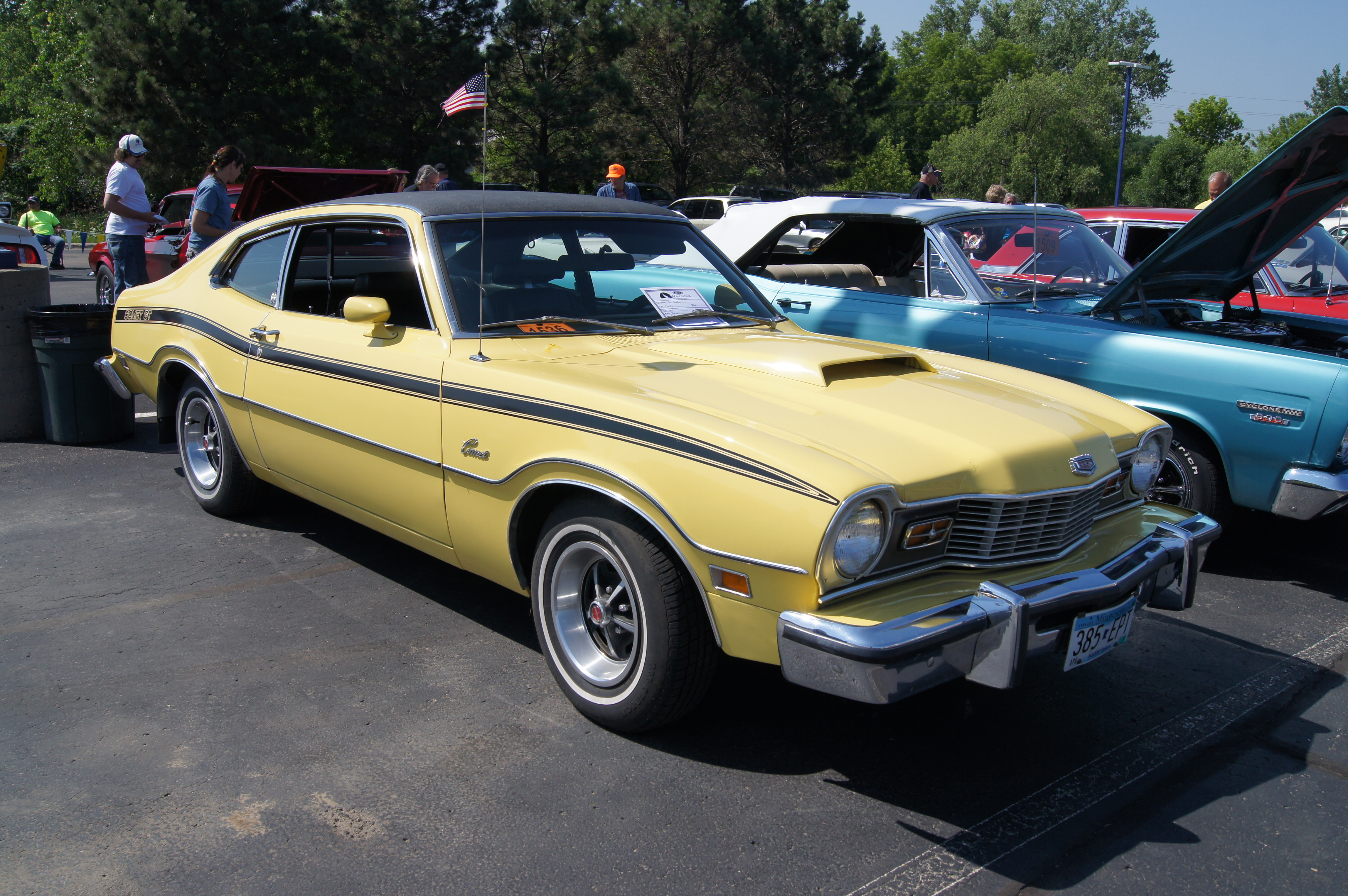 5th ANNUAL ALL FORD CAR & TRUCK SHOW July 13, 2014 Waconia Ford Waconia Minnesota